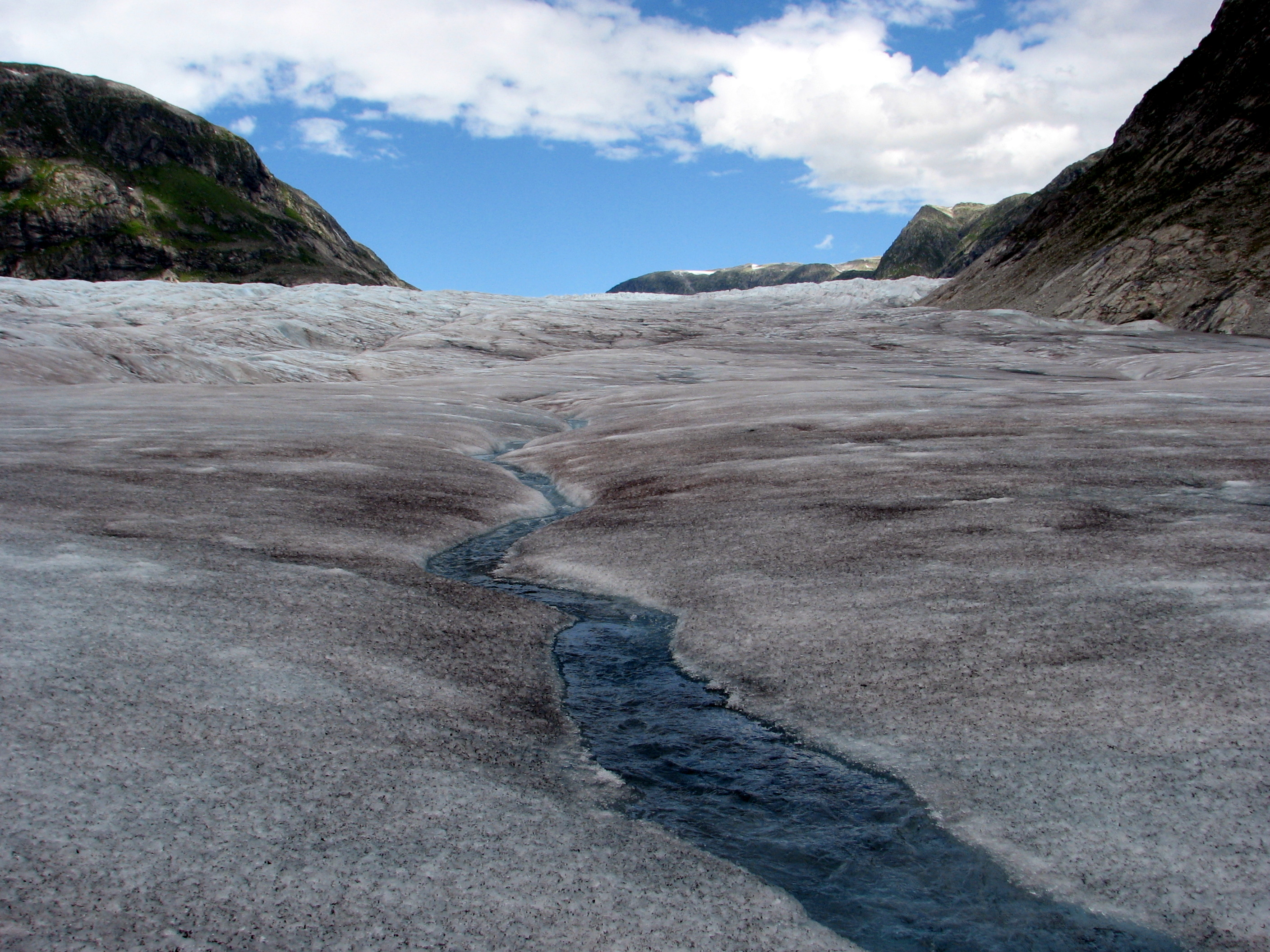 Tunsbergdalsbreen Glacier